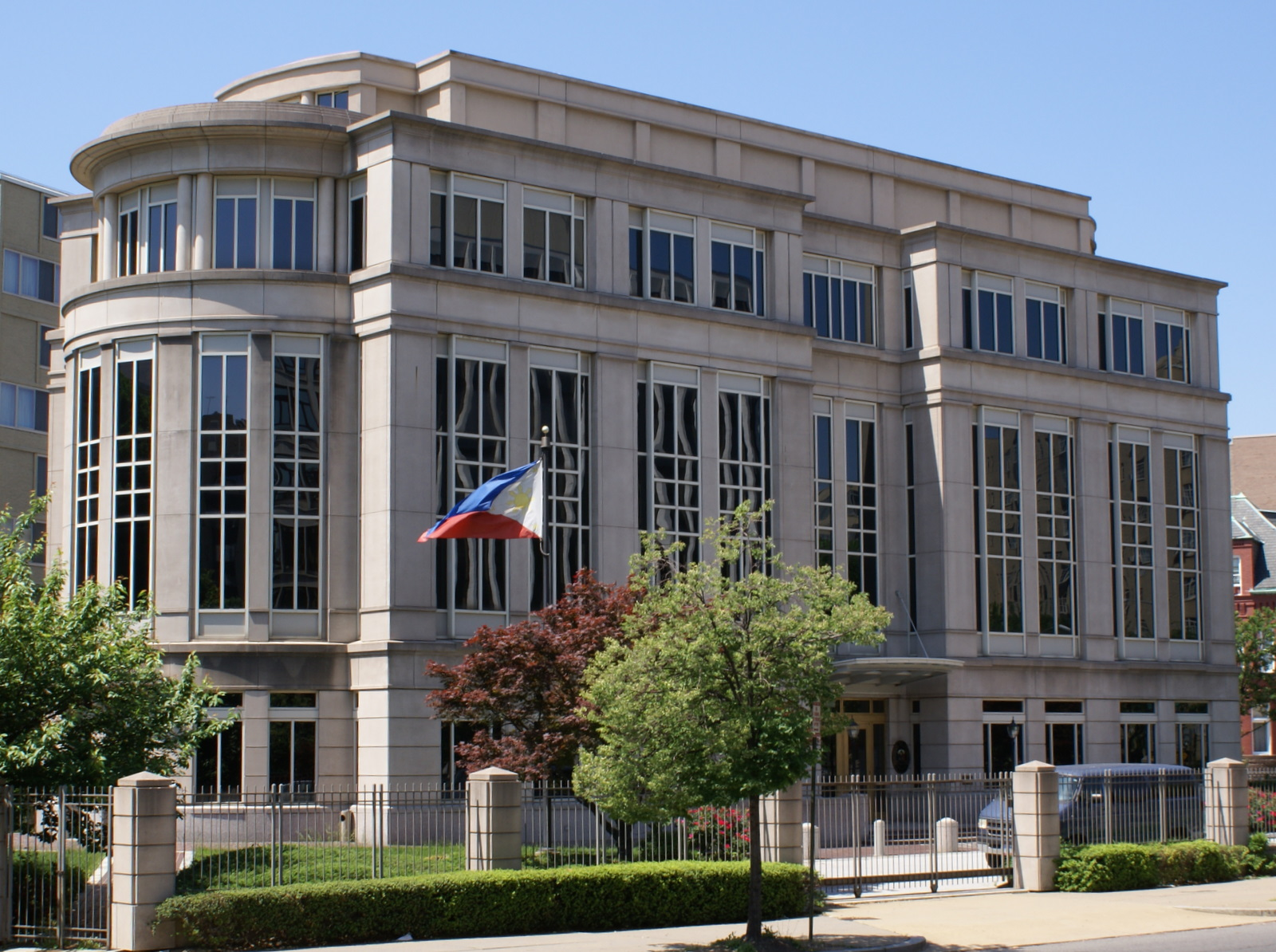 Embassy of the Philippines in the United States